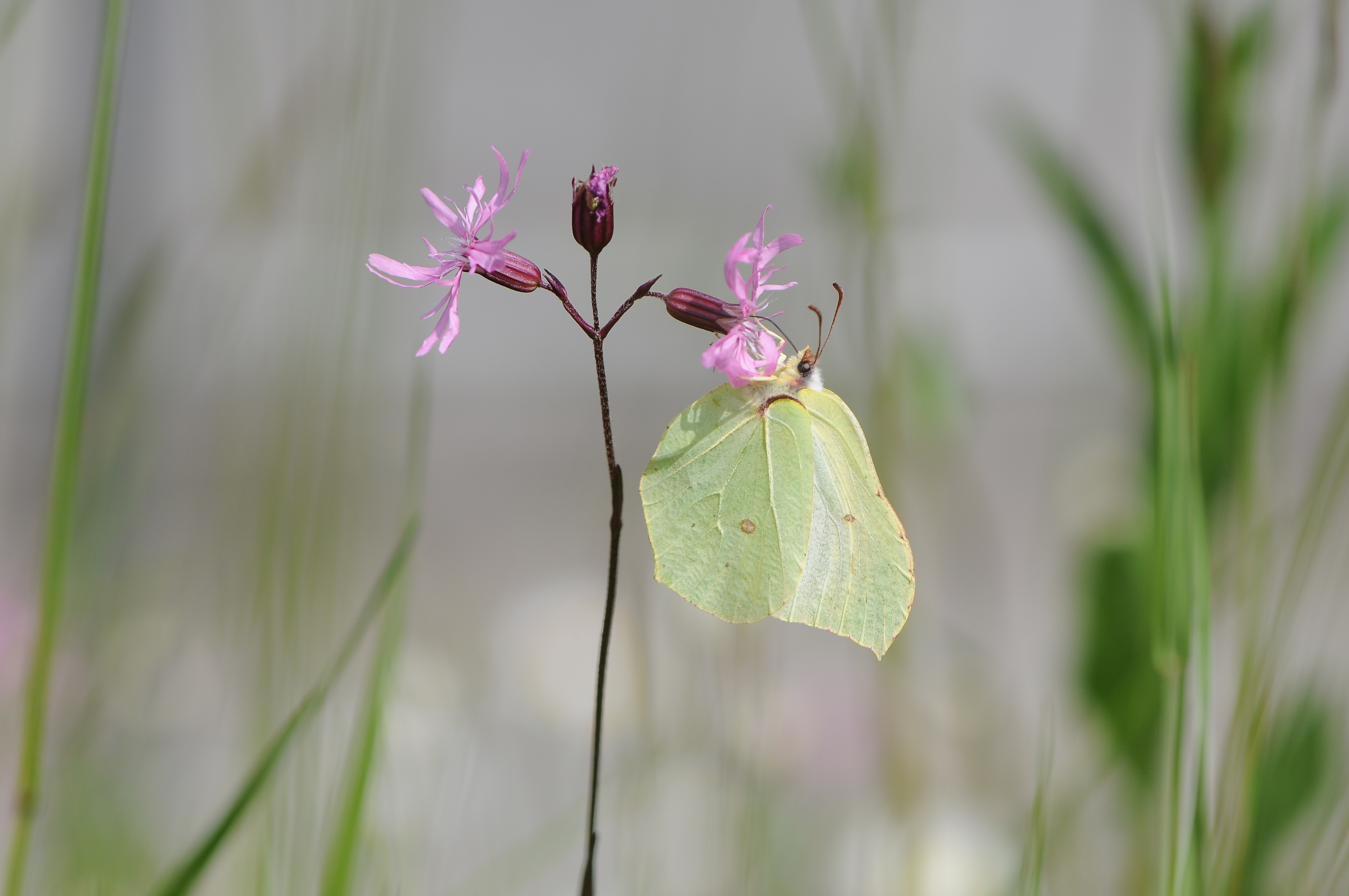 The Common Brimstone (Gonepteryx rhamni) is a butterfly of the Pieridae family. It lives in Europe, North Africa and Asia; across much of its range, it is the only species of its genus, and is therefore simply known locally as the brimstone.